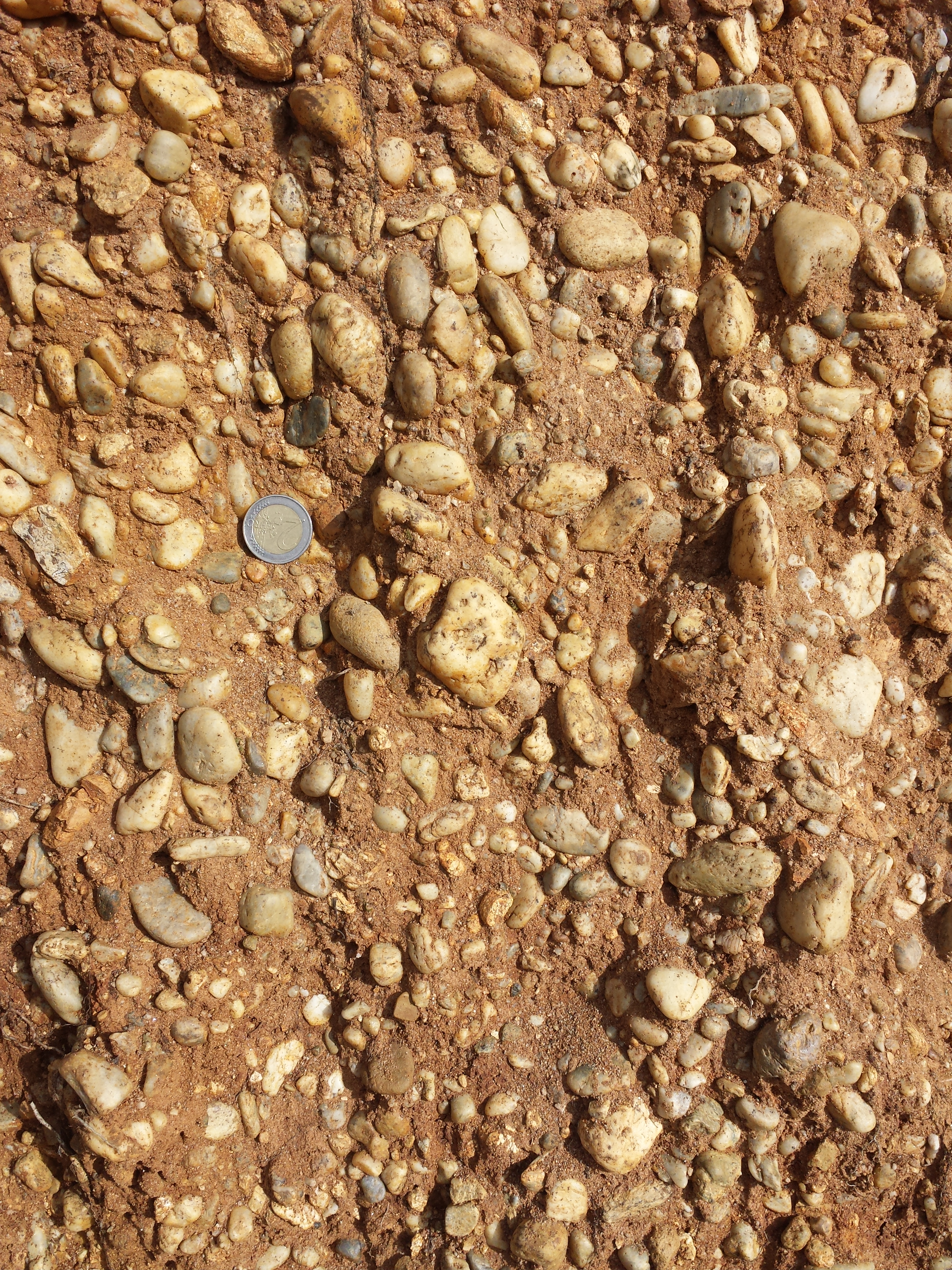 Abandoned quarry in Glasweiner Wald between Porrau and Hollabrunn, district Hollabrunn, Lower Austria - ca. 340 m a.s.l. Quarry face from gravels and sands of Hollabrunn Mistelbach Formation